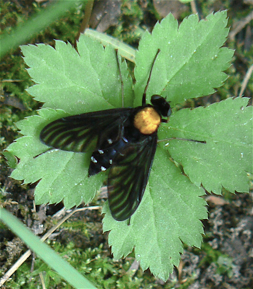 A Chrysopilus thoracicus in East Swanton, Ohio.